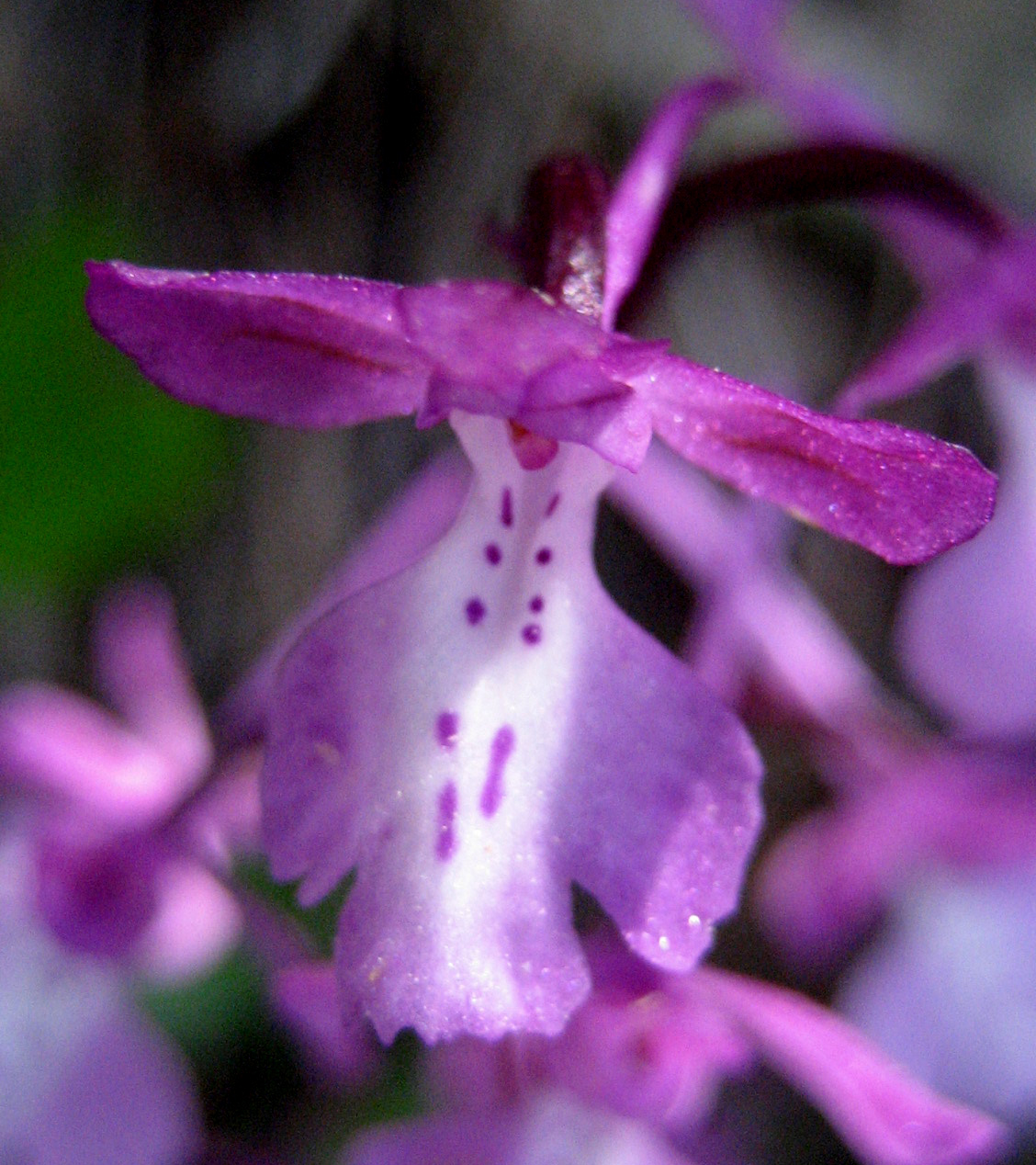 Orchis anatolica. Olympos, Antalya province, Turkey